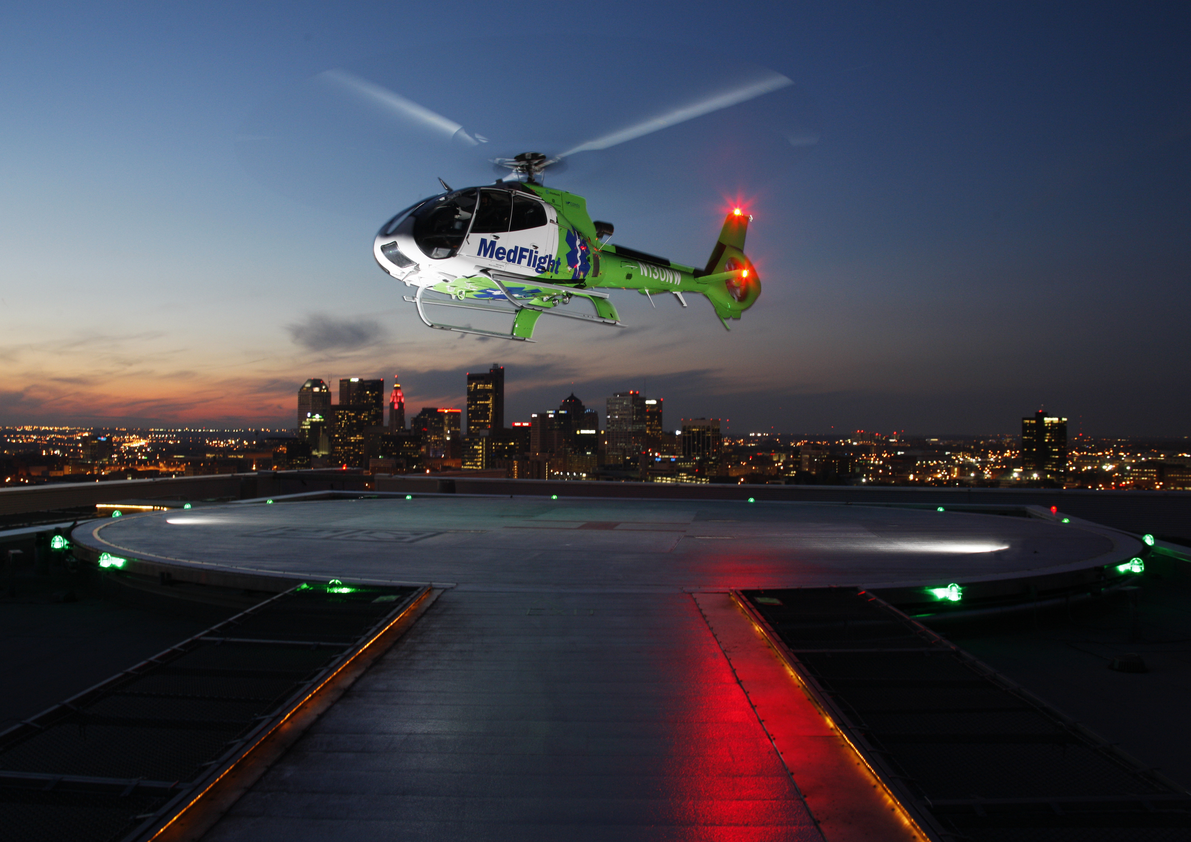 MedFlight operates EC130 B4's at all helicopter bases. This picture was taken on the helipad of Nationwide Childrens' Hospital in Columbus, OH.